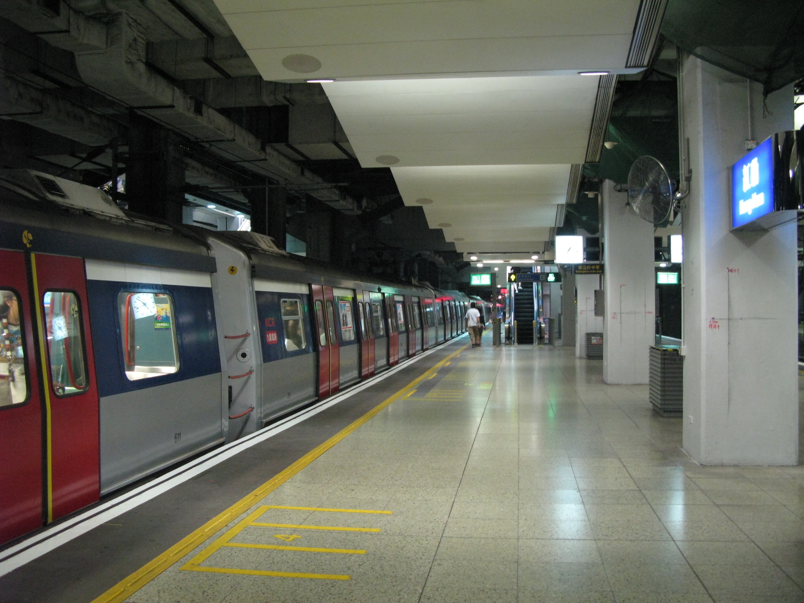 HK KCR East Rail Hung Hum Station Platform